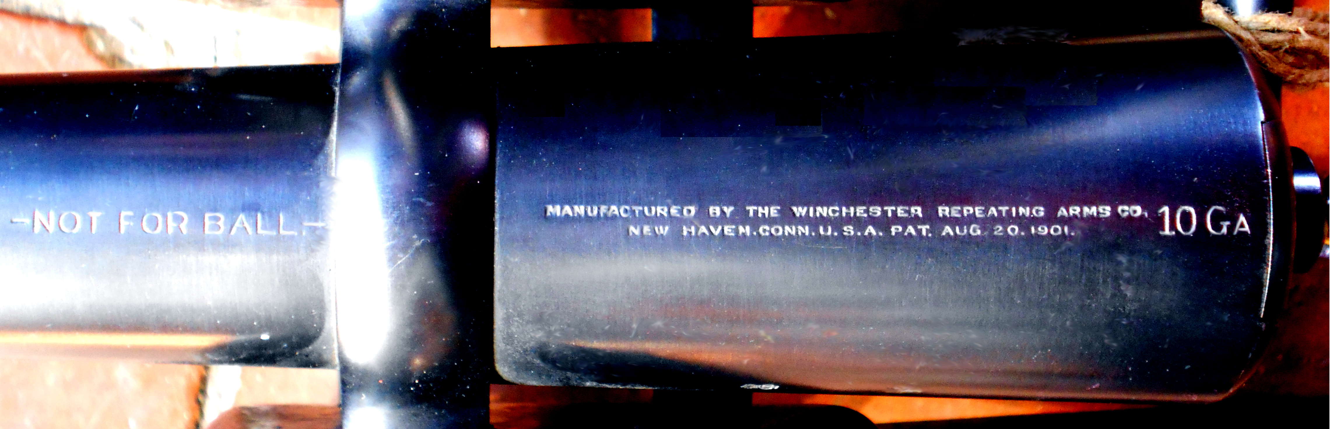 WRAInsgription